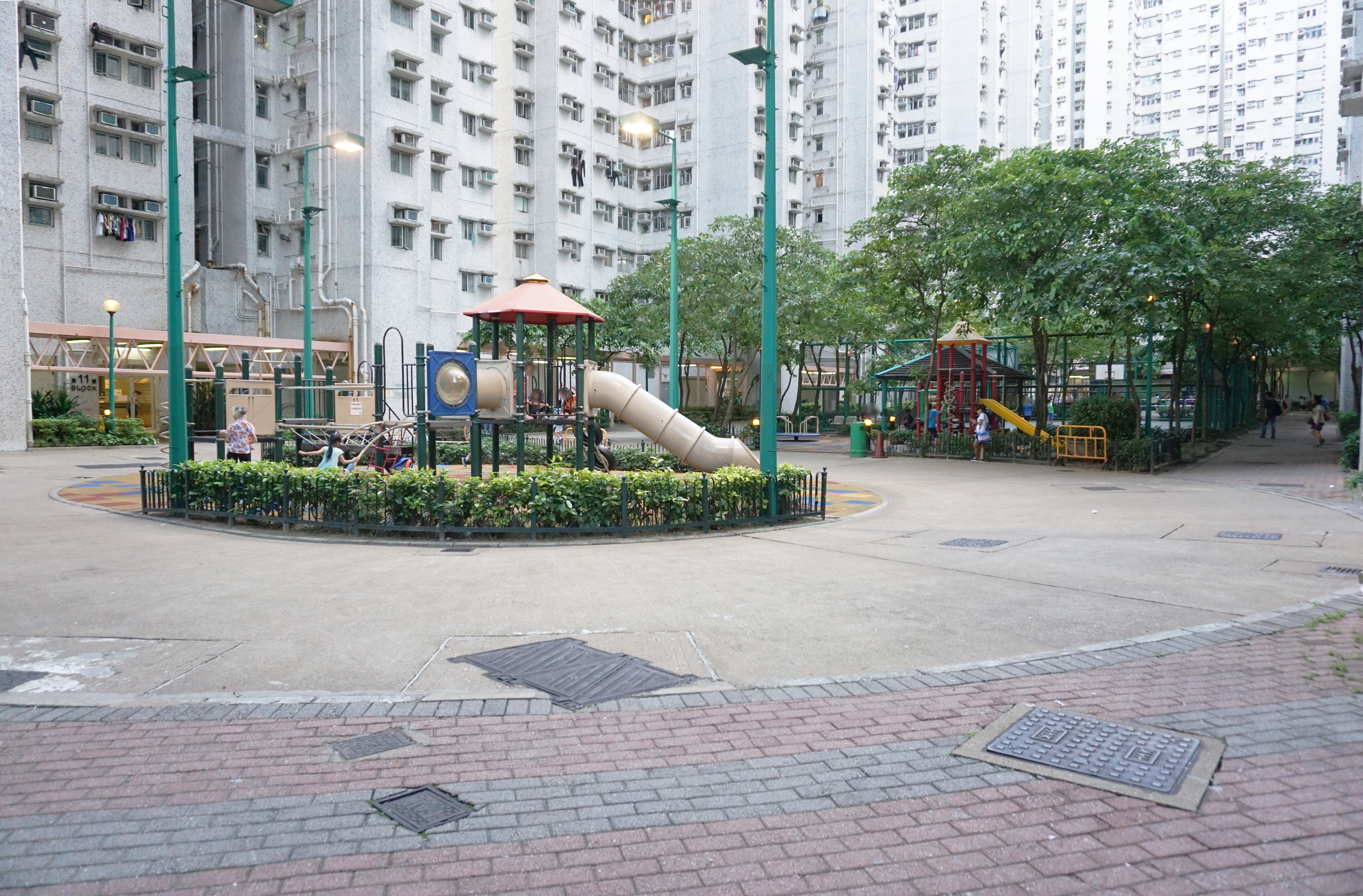 Charming Garden in Mong Kok, Hong Kong.